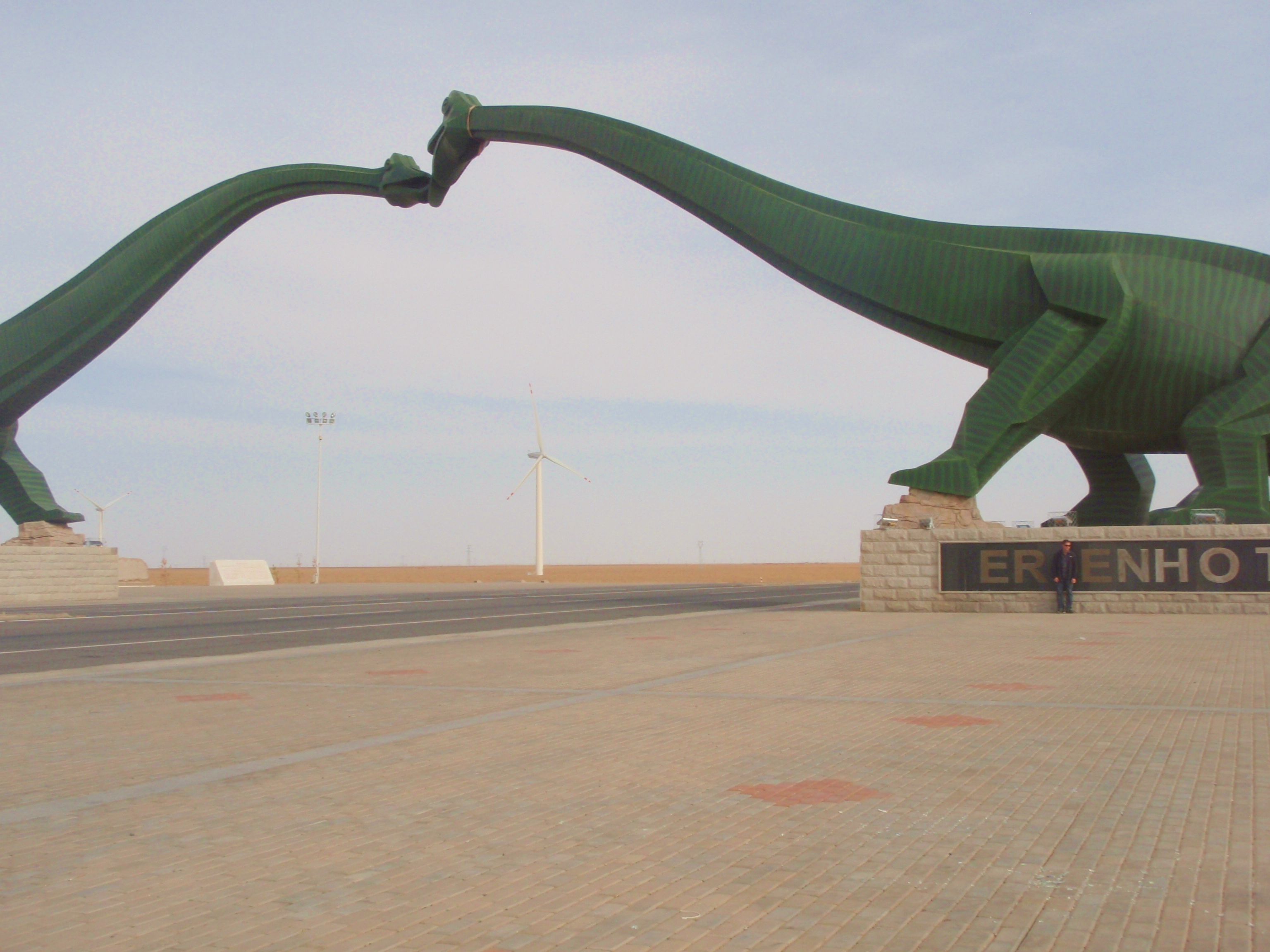 Kissing Sauropods bridge the road in the Gobi Desert, in Inner Mongolia. Located near the border with Mongolia (Erenhot, Xilin Gol, Nei Mongol, China).